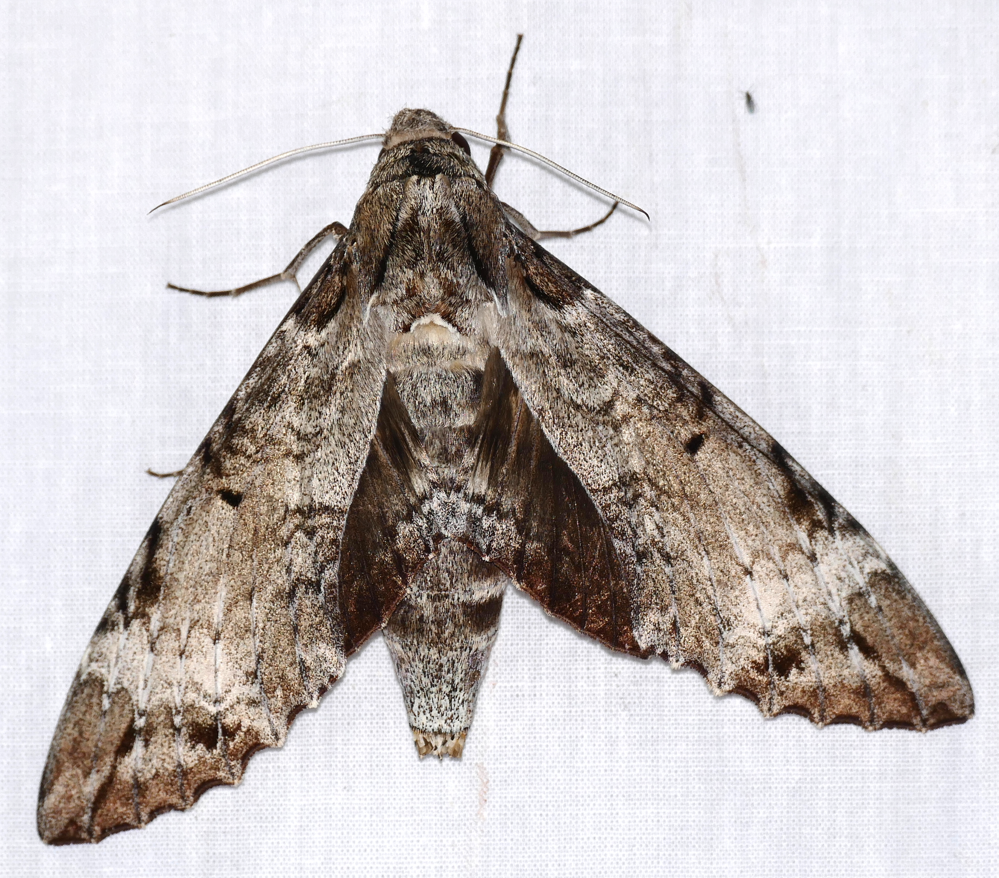 PK37, D6 Route de Kaw, Roura, French Guyana, FRANCE